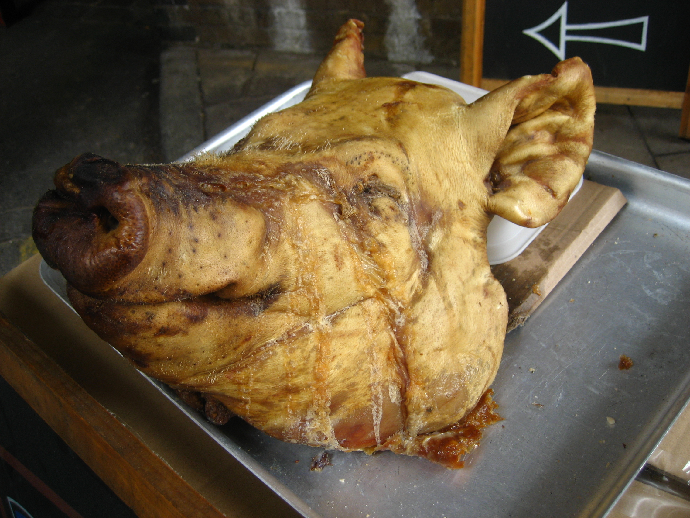 Pig's head